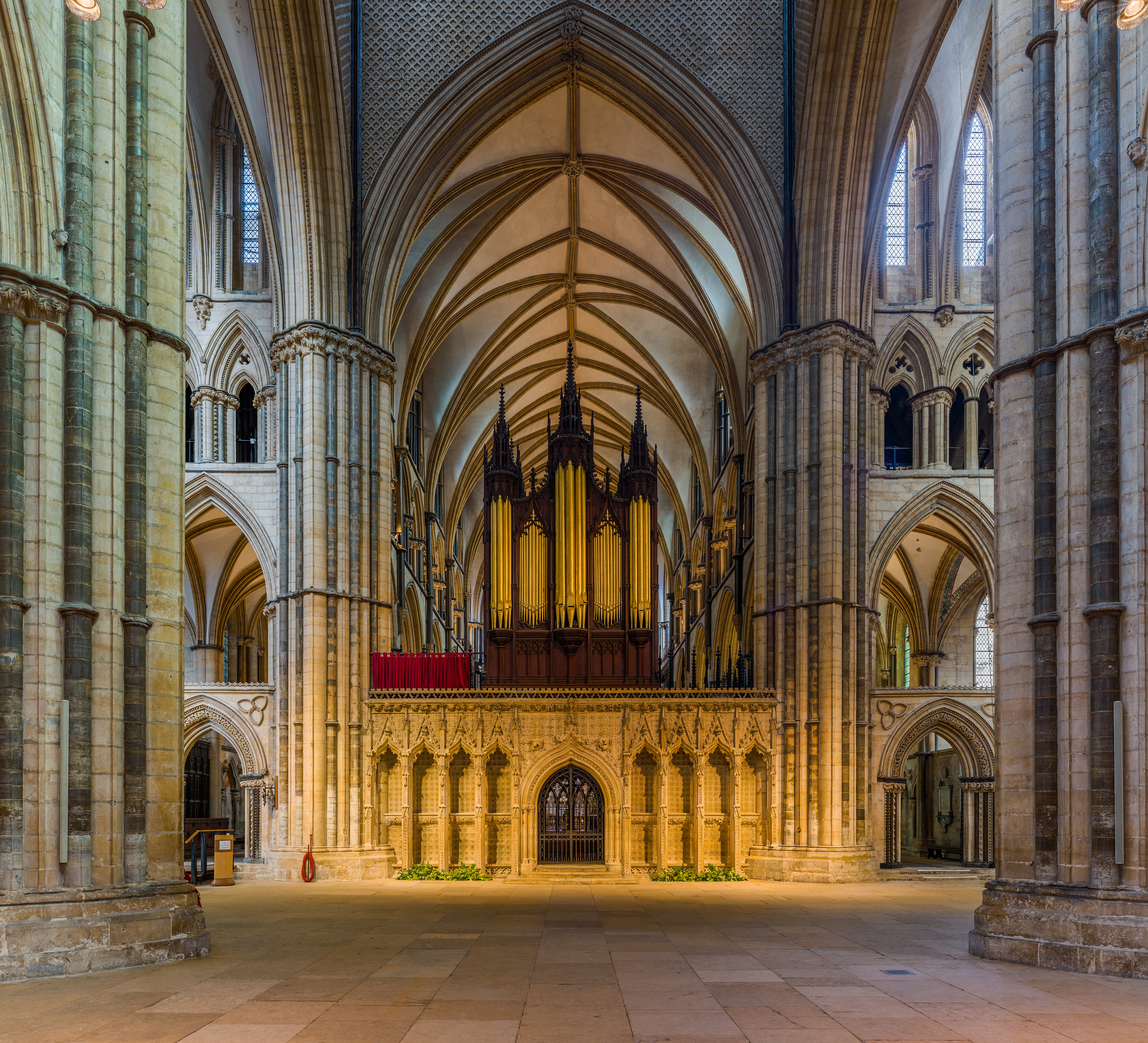 The rood screen and organ of Lincoln Cathedral looking east, in Lincolnshire, England.